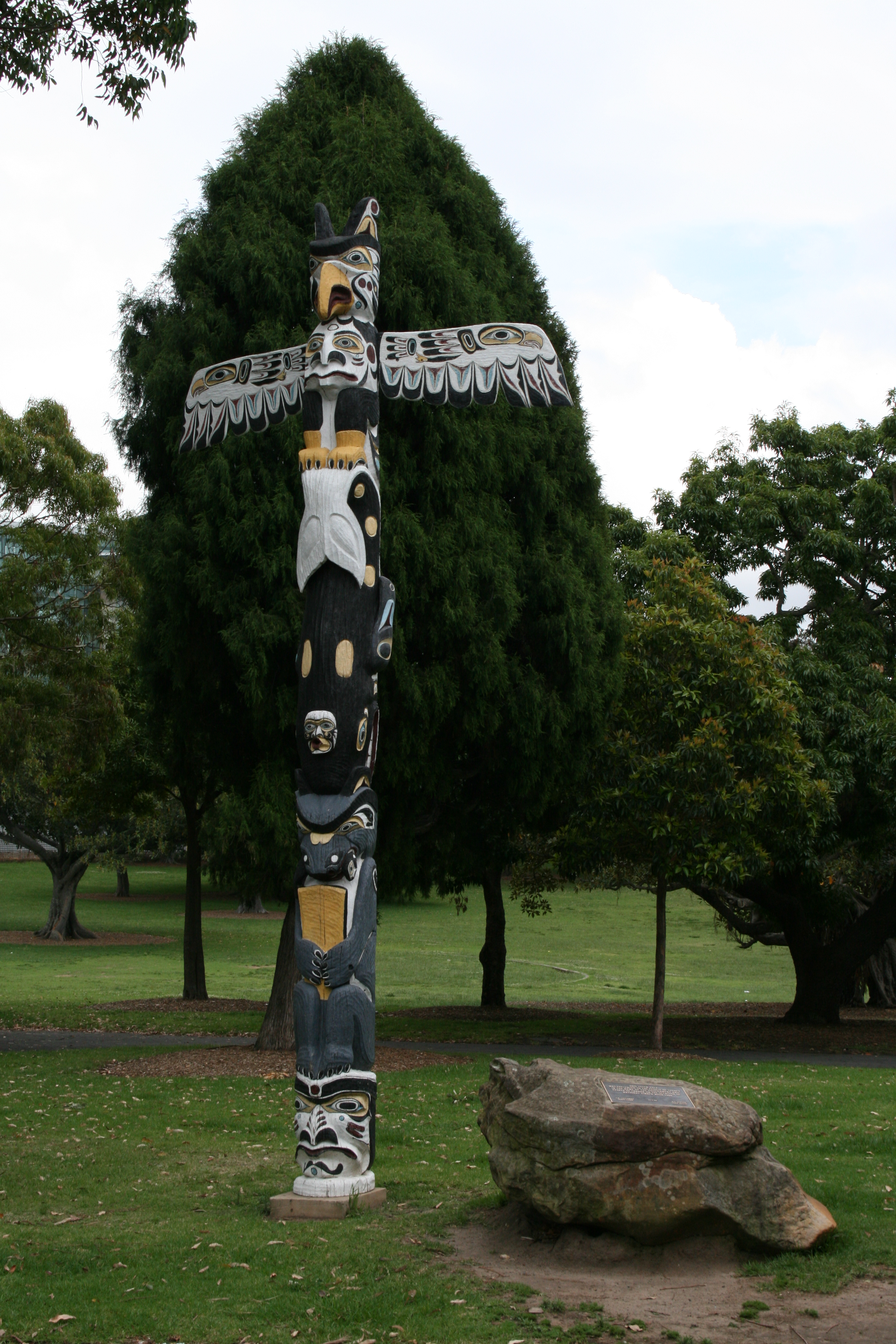 The totem in Victoria Park, Sydney. The plaque beside it reads "THIS TOTEM POLE WAS PRESENTED TO THE PEOPLE OF SYDNEY IN THE NAME OF THE GOVERNMENT AND PEOPLE OF CANADA ON THE OCCASION OF NATIONAL TIMBER WEEK 1964. J. H. LUSCOMBE, TOWN CLERK. H. F. JENSEN, LORD MAYOR. 17.9.64". The totem pole was carved by Simon Charlie, a Quamishan man from Vancouver Island, British Columbia.[1]